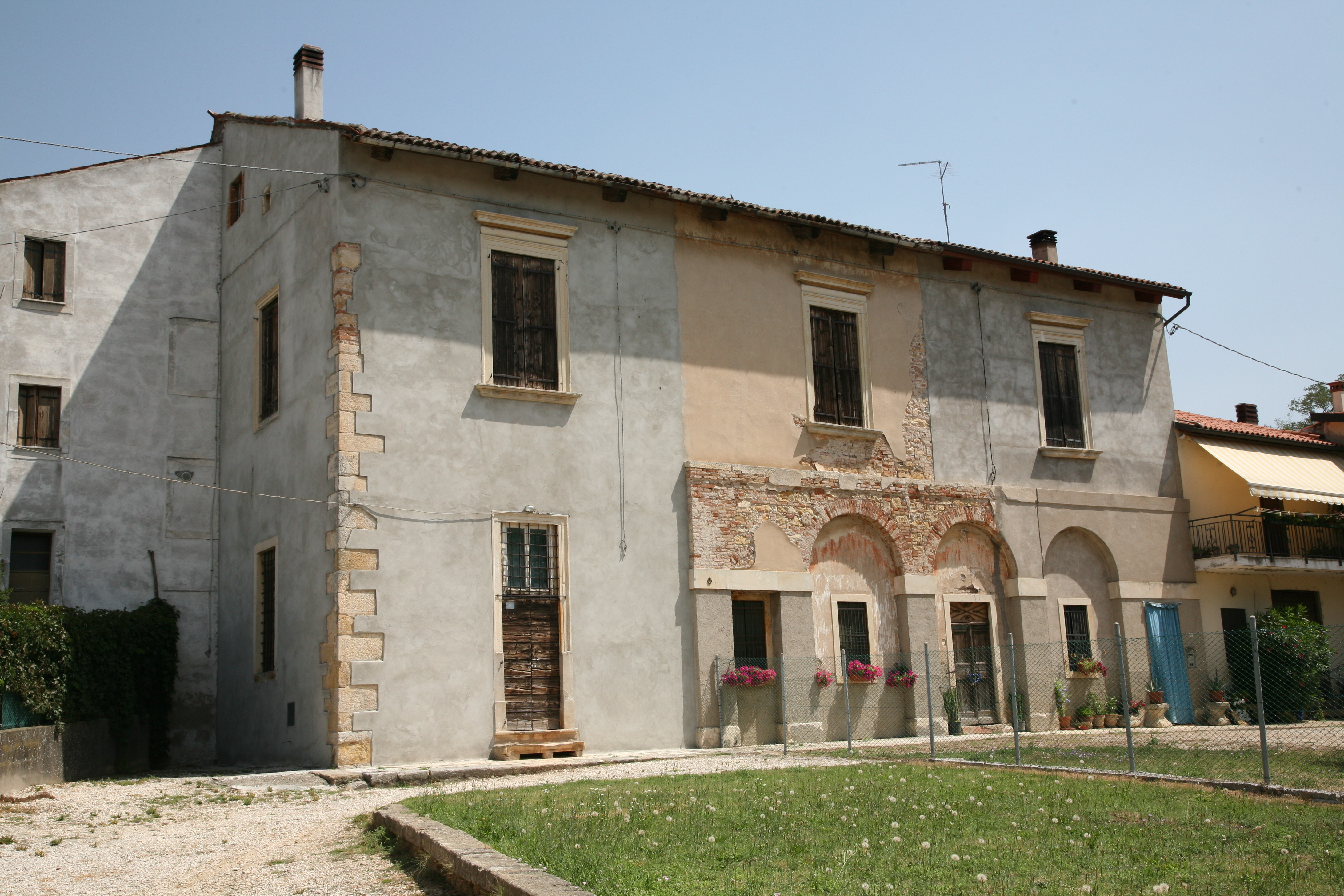 Villa Arnaldi at Meledo di Sarego is an unfinished project by Andrea Palladio